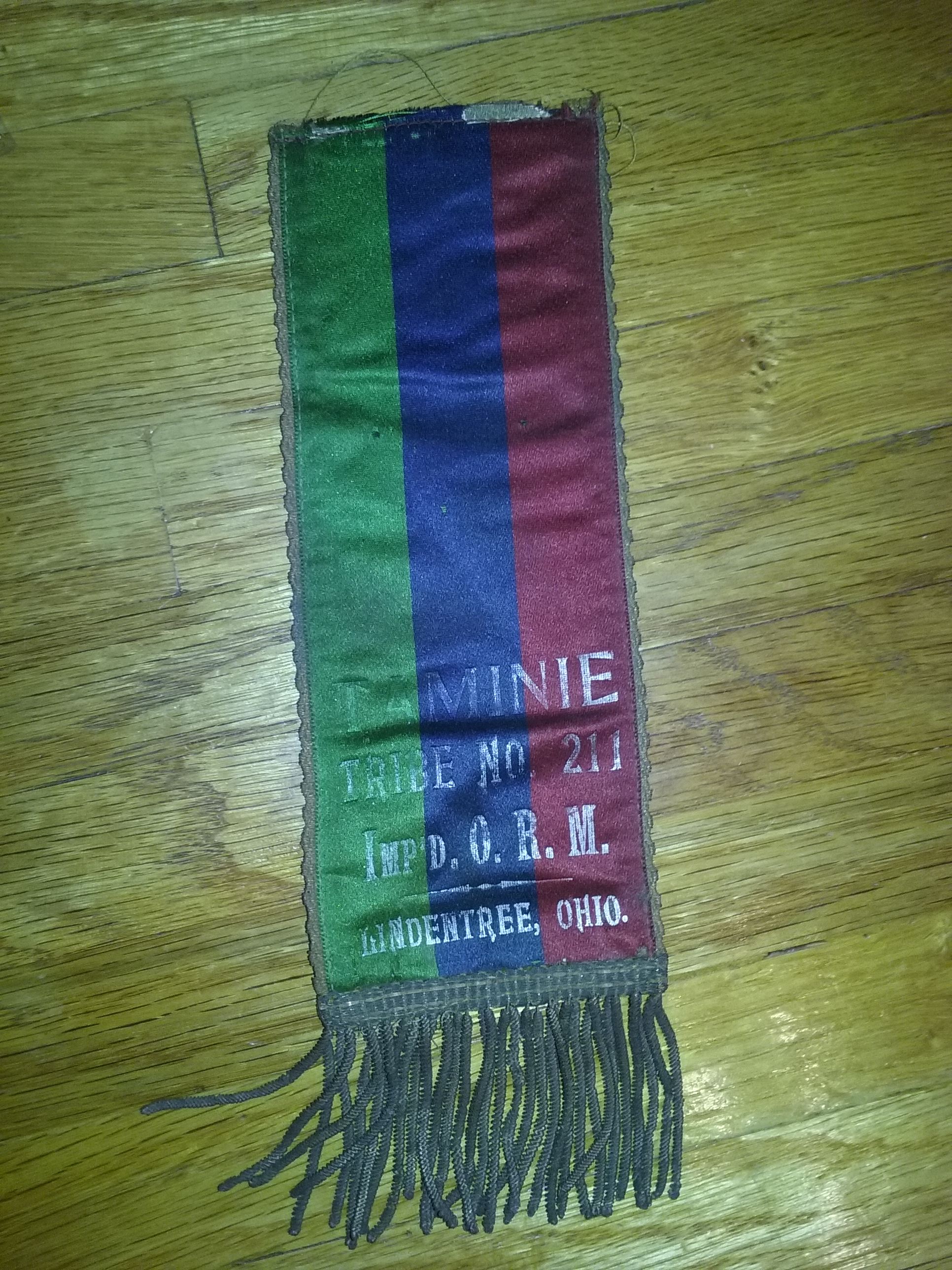 Ephemera for Improved Order of Redmen Taminie Tribe # 211 in Lindentree, Ohio on a red oak table.